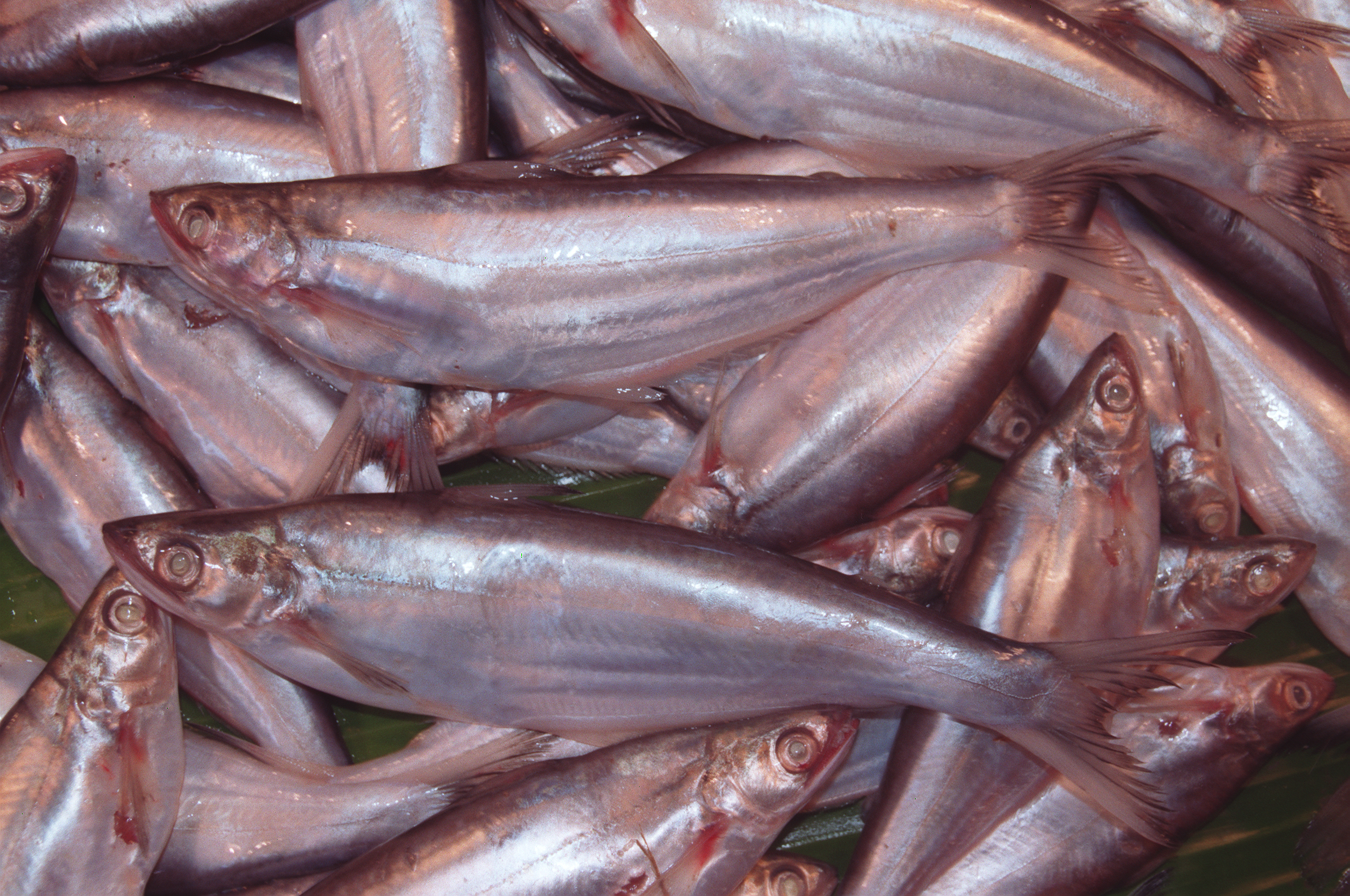 Clupisoma garua, better known as Garua Bachcha, are found in large rivers from their tidal mouths right up to the Himalayan foothills. They can reach a respectable 0.60 m by feeding on insects, shrimps, crustaceans and even other smaller fish.